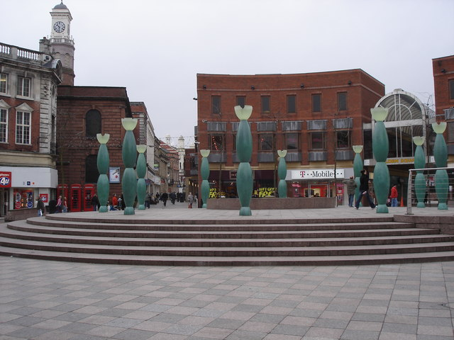 Artworks in Warrington Town Centre